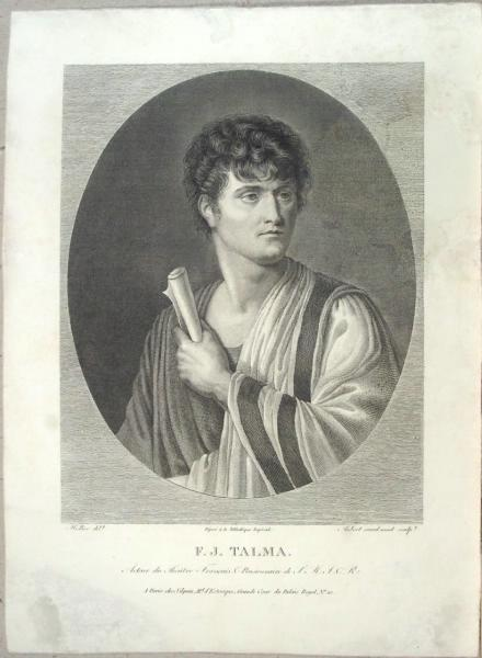 Engraving of François-Joseph Talma in ancient Roman attire